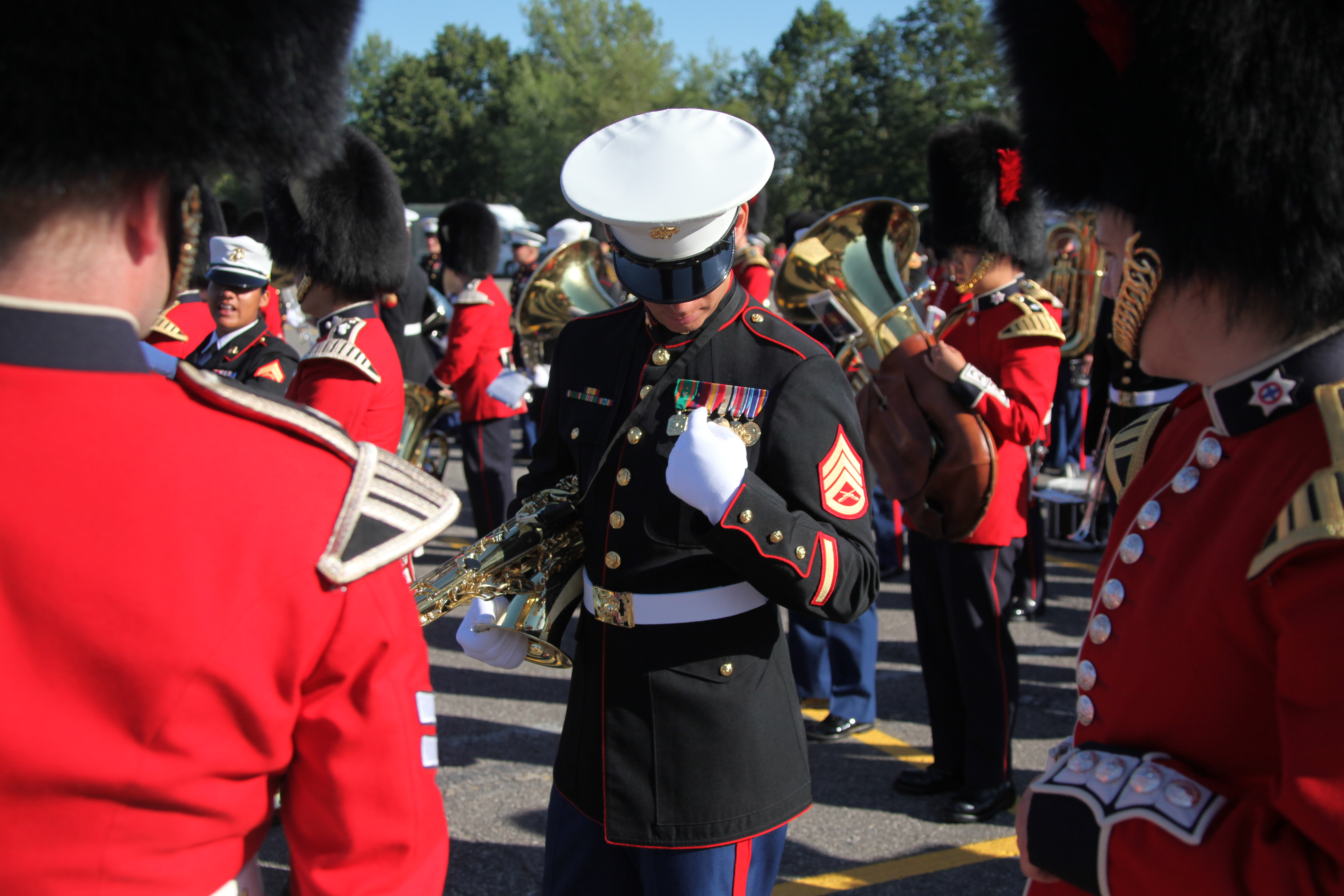 Staff Sgt. Austin Moore explains his military decorations to members of the Canadian Forces Ceremonial Guard during a practice session at Carleton University in Ottawa, Canada, Aug. 12. Moore is the 2nd Marine Aircraft Wing Band’s platoon sergeant.